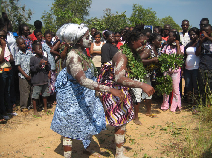 Traditional dances at the Asafotufiami Festival in Big Ada